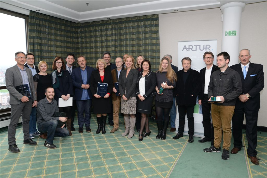 Dodjela ARTUR nagrada 2014.